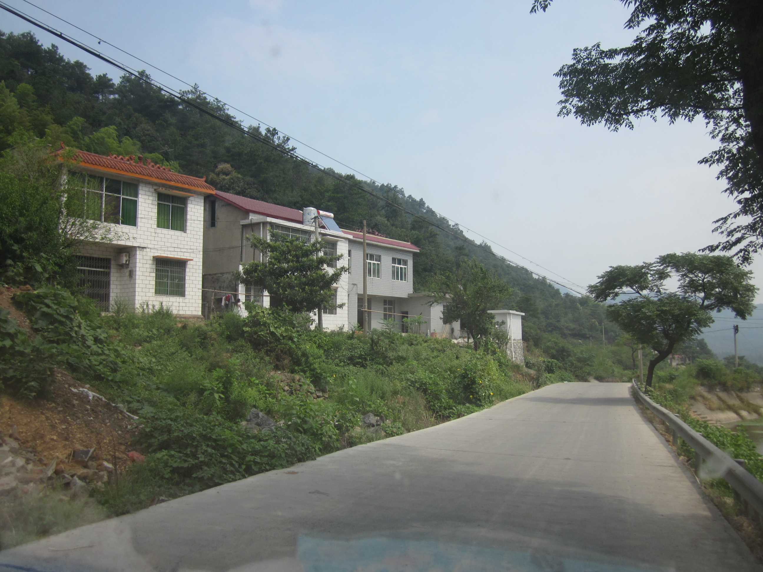 Daping Township (simplified